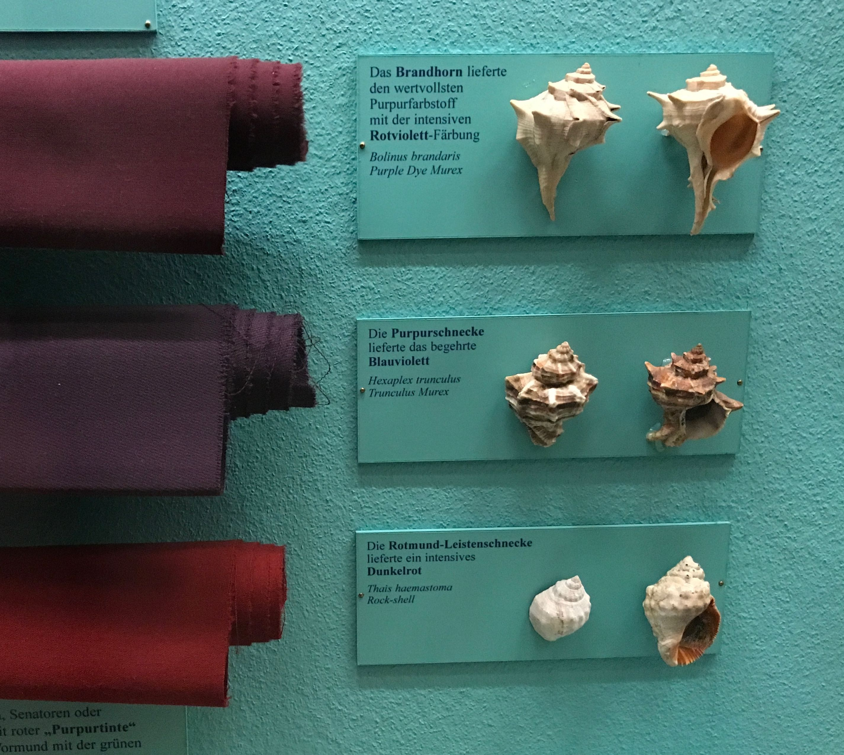 purple dyed fabric with their corresponding sea snail Bolinus brandaris Hexaplex trunculus Stramonita haemastoma (Thais haemastoma) Exhibit of the Museum of Natural History in Vienna